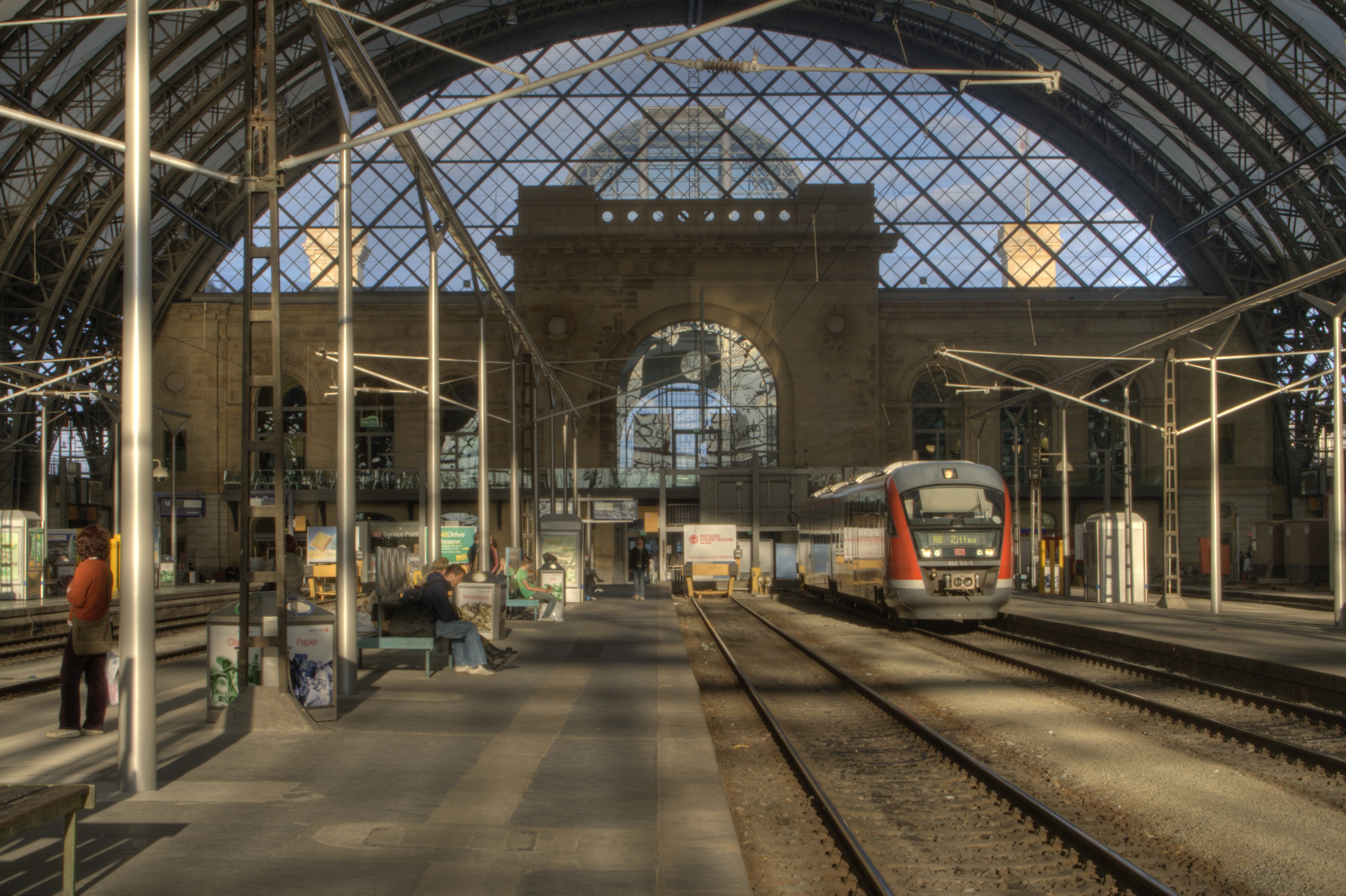 A picture of the main train station in Dresden/Germany taken from the main central hall. It was composed of 3 consecutive images whereas a HDR image with tone mapping was generated.